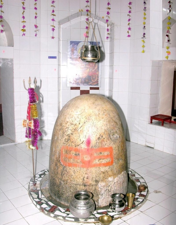 Mansehra Shiva Temple shivling in Kyber Pakhtunkhwa